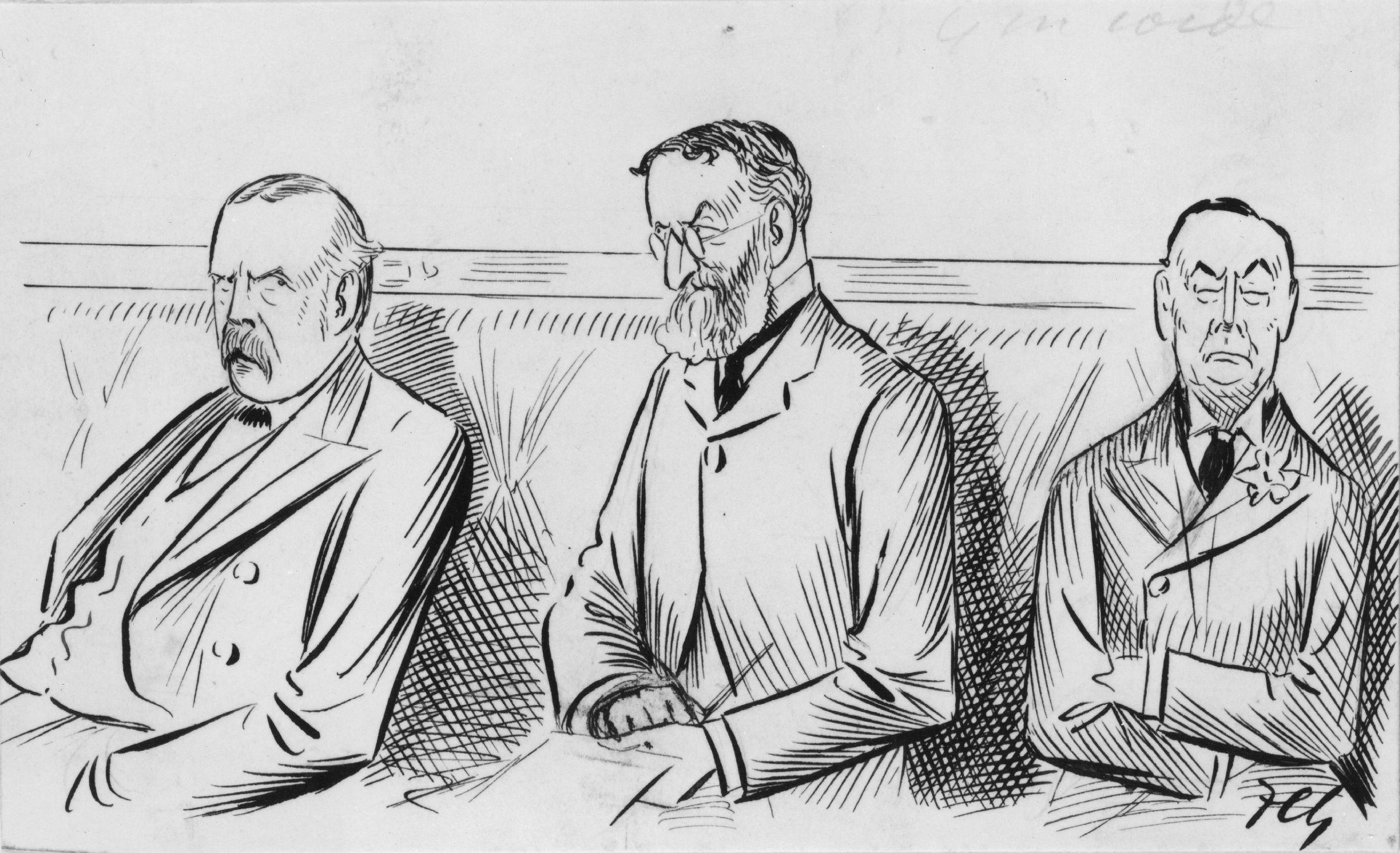 Arthur James Balfour, 1st Earl of Balfour; Michael Edward Hicks Beach, 1st Earl St Aldwyn; Joseph ('Joe') Chamberlain, by Sir Francis Carruthers Gould ('F.C.G.') (died 1925). All images in this batch have been confirmed as author died before 1939 according to the official death date listed by the NPG.